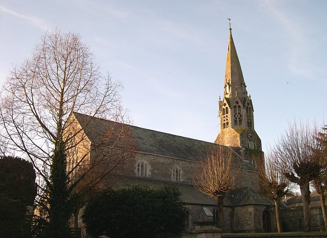 St Bartholomew's parish church, Lostwithiel, Cornwall, seen from the northeast